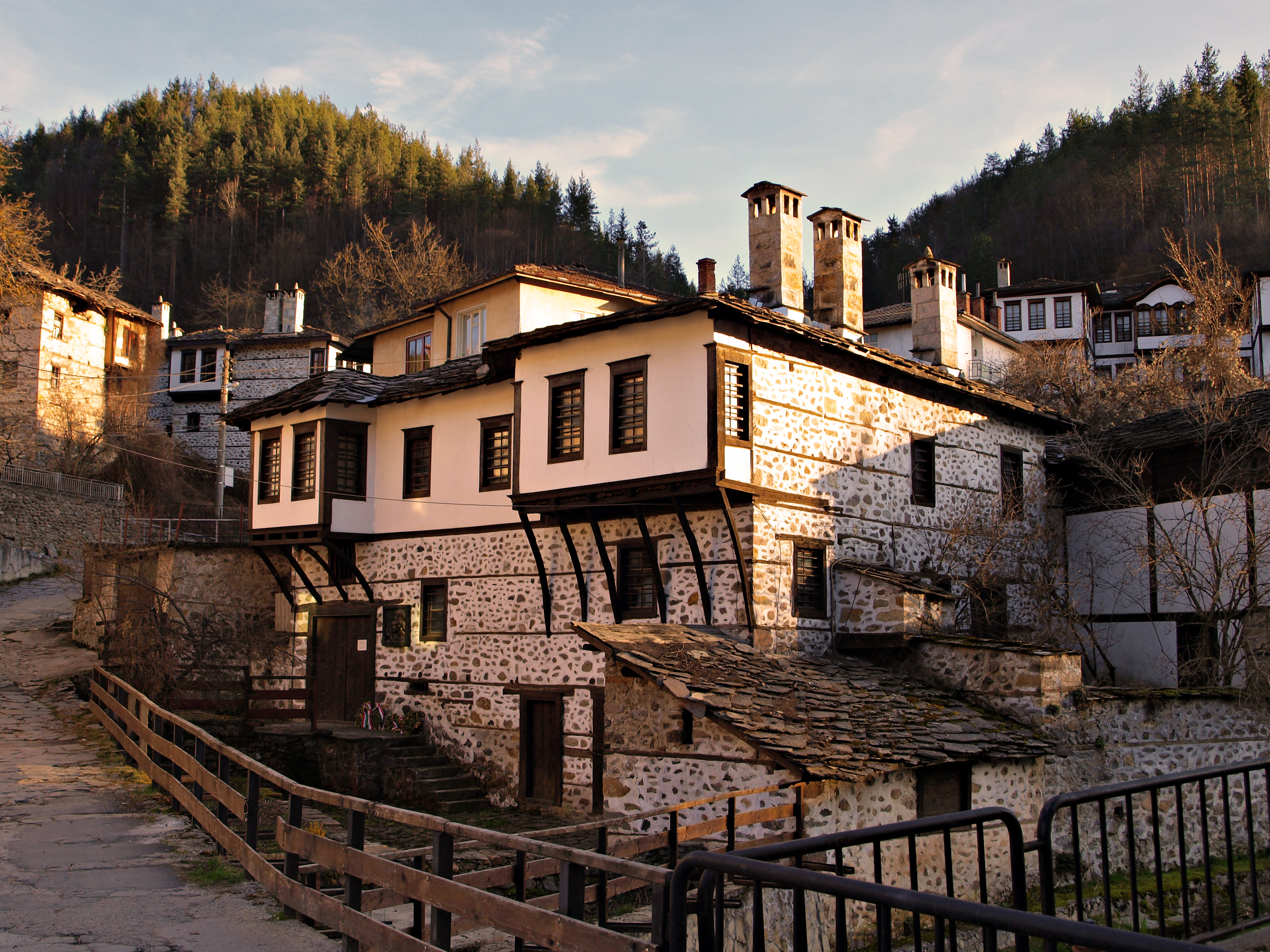 Memorial house of Hungarian poet László Nagy in Smolyan, south central Bulgaria